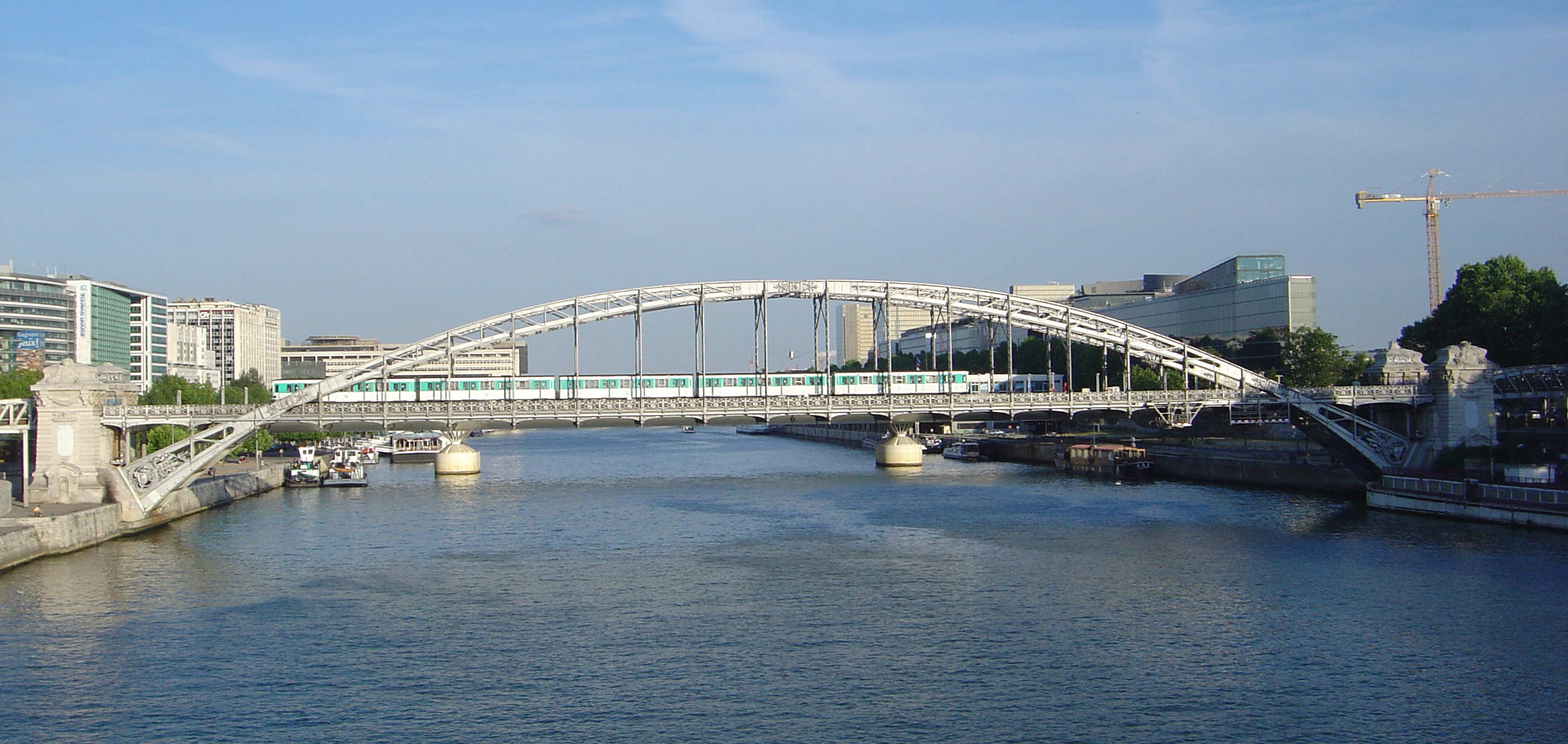 Paris Metro bridge of line 5 over the river Seine north of Gare d'Austerlitz, seen from the east July 11, 2005